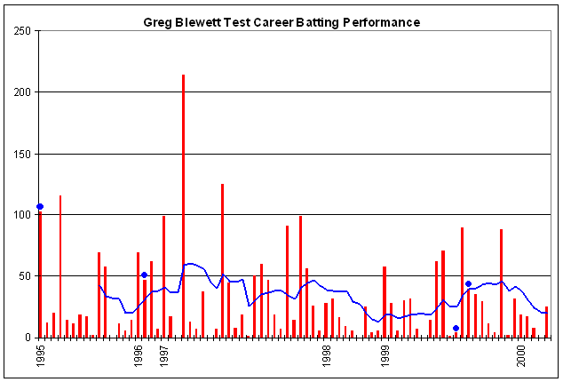 Test batting chart of Greg Blewett. Red columns are the runs in the innings. Blue dots indicate not outs. Blue line is average in the last ten innings. Thanks to Raven4x4x for providing the template.